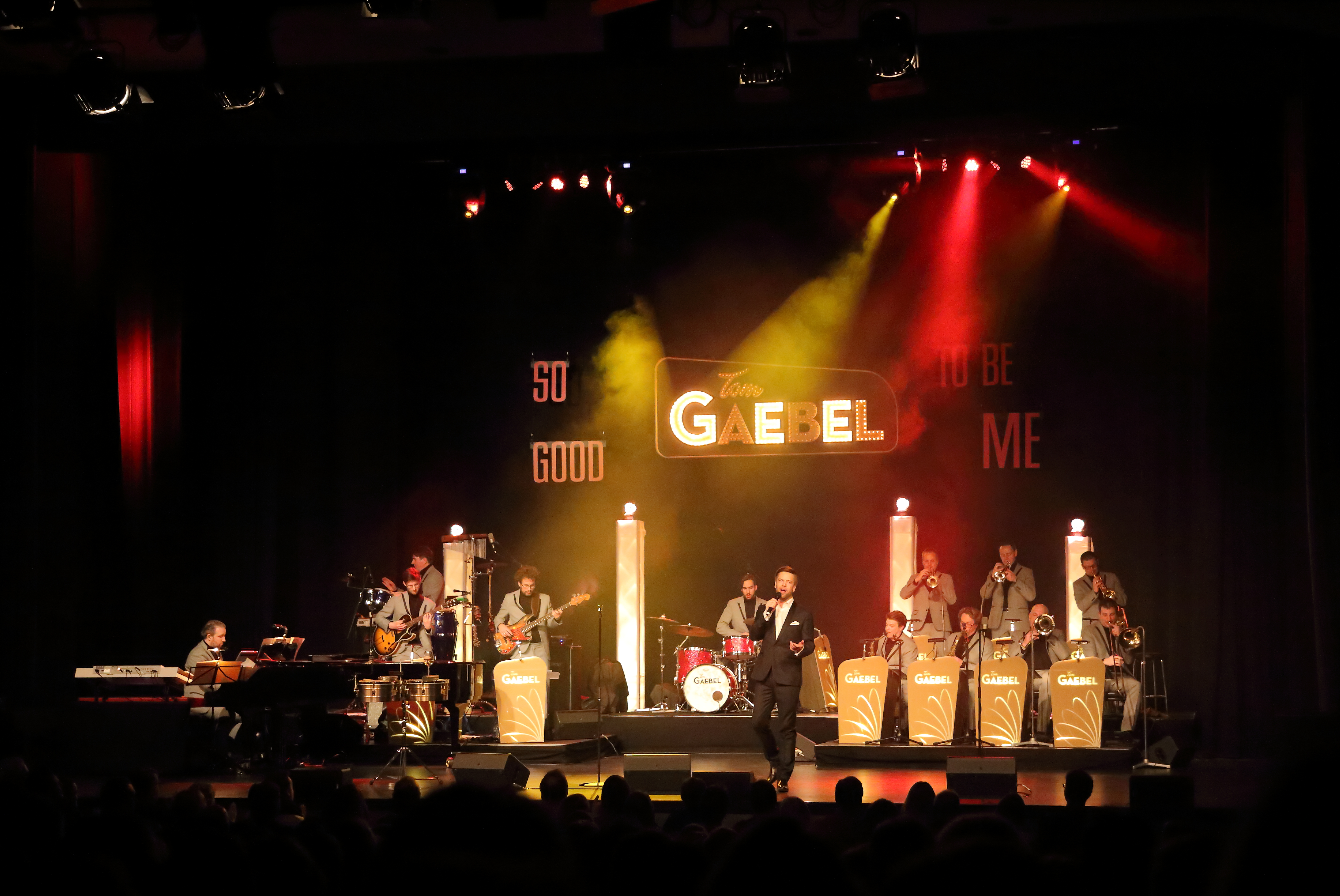 Tom Gaebel and his band performing the concert So Good to Be Me in the Bürgerhaus of Ibbenbüren, Kreis Steinfurt, North Rhine-Westphalia, Germany. Photo taken with permission.